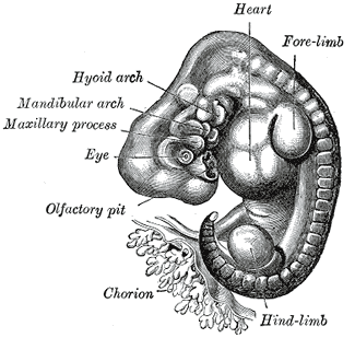 Human embryo, twenty-seven to thirty days old. (His.)